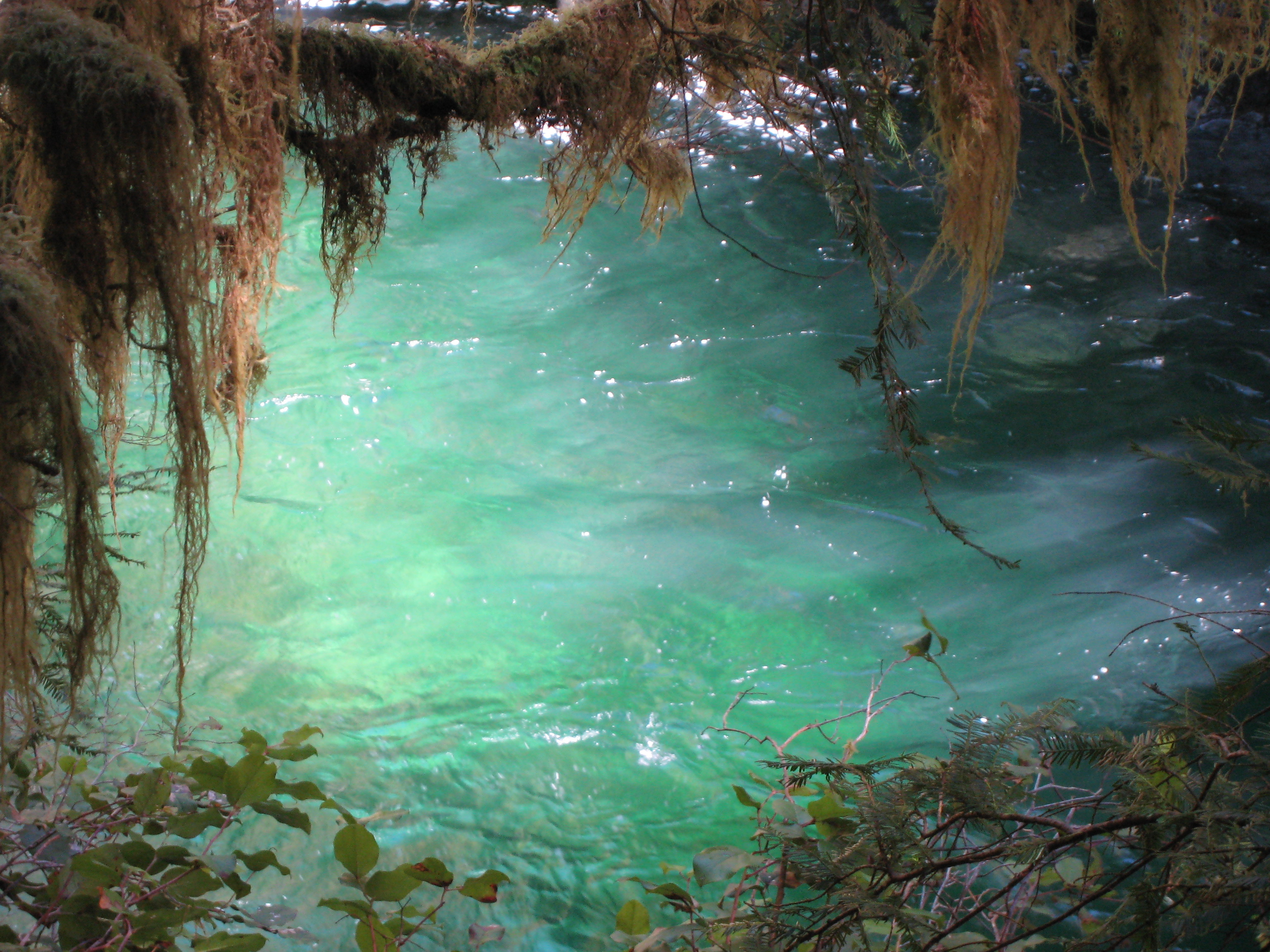 Opal pool in the Opal Creek Wilderness, Willamette National Forest, Oregon, USA.